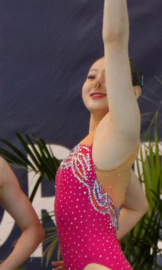 Synchronised swimmer Liang Xinping at the Open Make Up For Ever 2013 in France